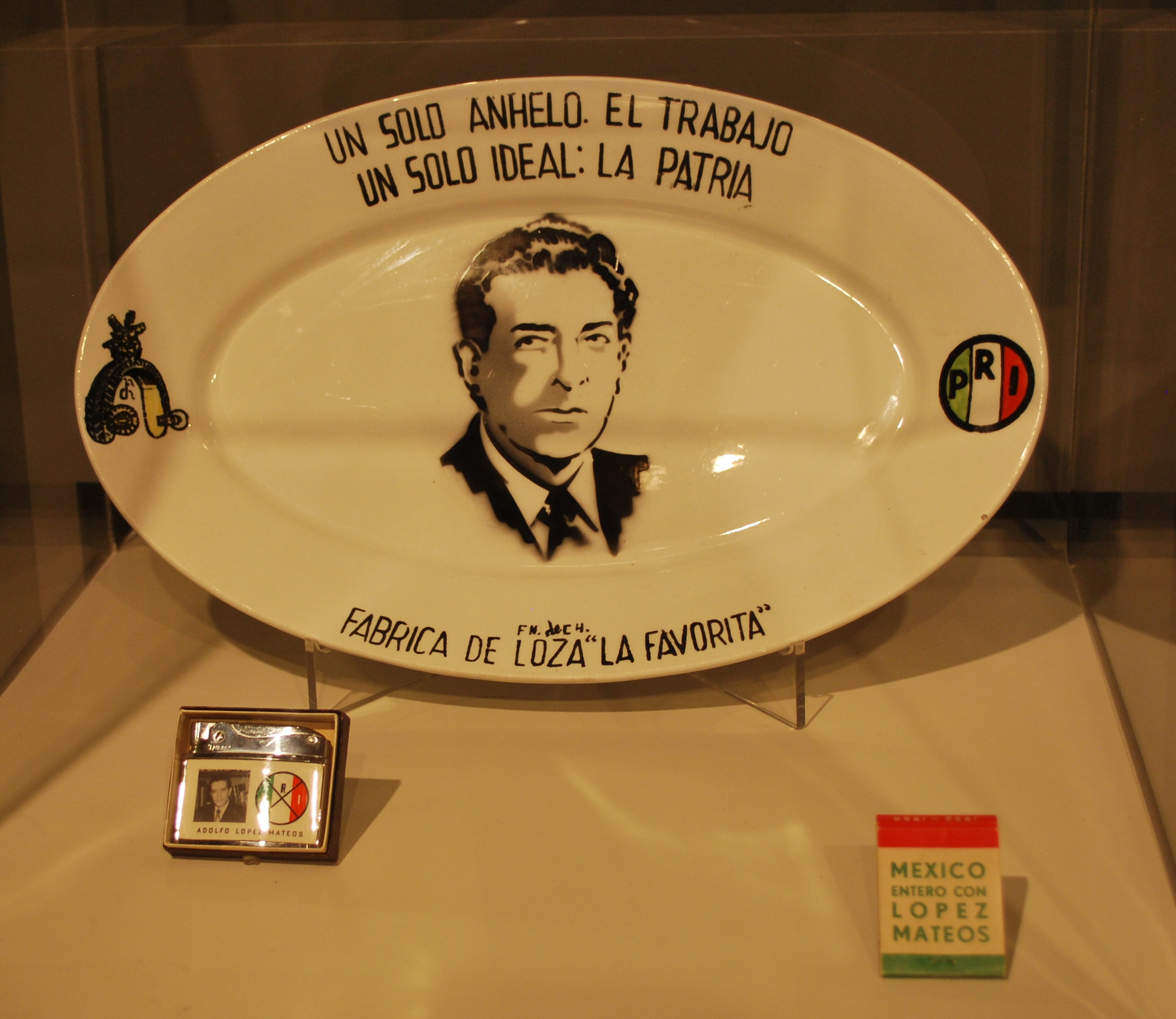 Items from Adolfo Lopez Mateos's presidential campaign on display at MODO